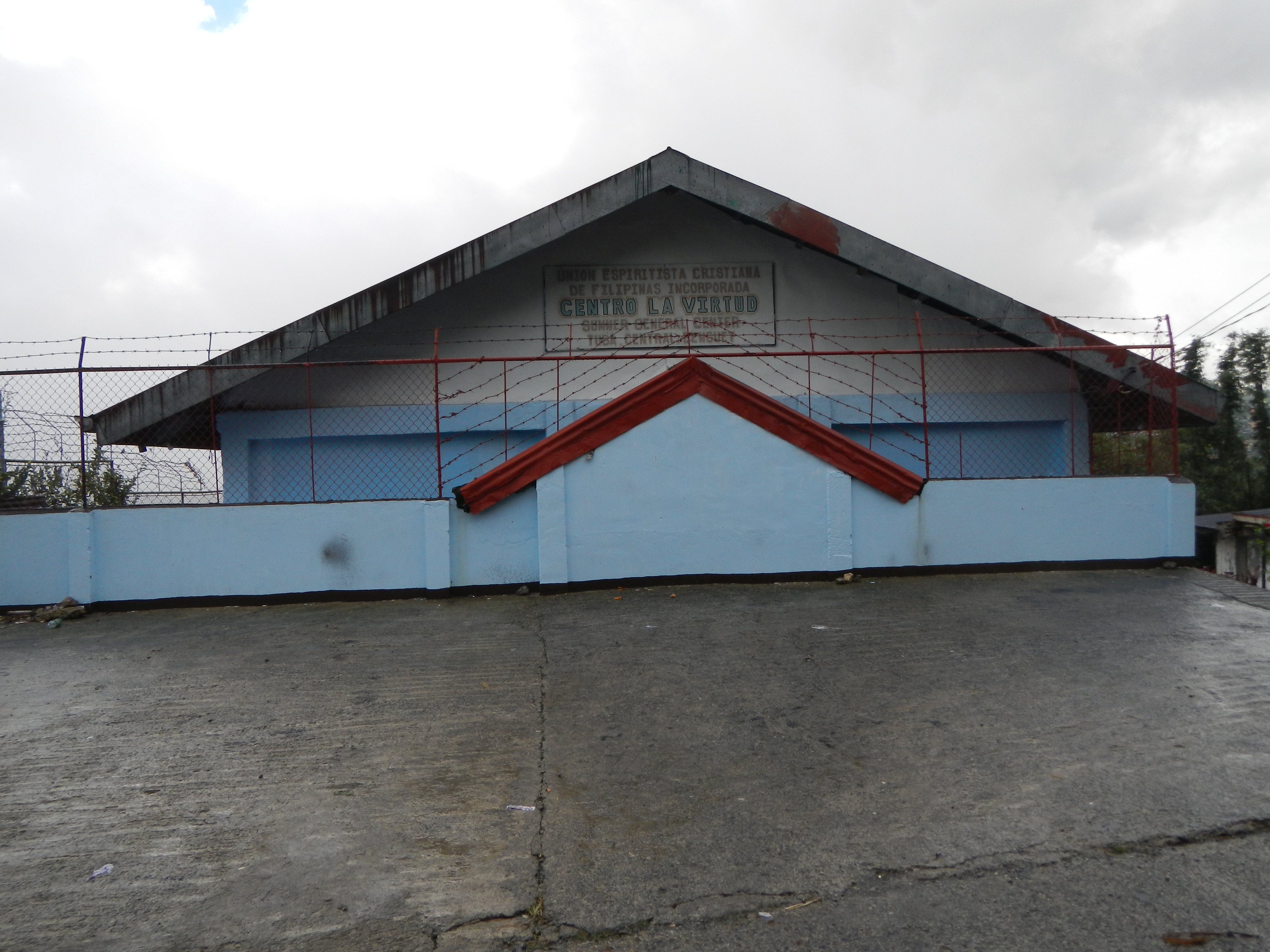 Upload Wizard photos of - the sunflowers along the - foggy view of Tuba, Benguet Town Proper and nearby barangays, Sitio Bontiway, Poblacion, (Details -- the Tuba Public Market beside the Covered Basketball Multi-Purpose Court, Barangay Hall of Poblacion, Senior Citizen's Building, Strawberry Day Care Center, Tubencoga Office, -- Tuba Town Proper, Centro, Poblacion, Product Display Center, Tuba Municipal Hall Complex, Police Station, - scenery, panoramic, landscapes of Tuba mountains and hills, with panoramic view of Baguio City houses and City Proper in the mountains, beside the - Conversion of Saint Paul Parish Church of Tuba (F-1975), Tuba 2603 Benguet Titular: Conversion of St. Paul, January 25 Parish Priest: Fr. Victor Munar Saint Paul Parish Church of Tuba,[1] [2] [3] Poblacion, Tuba, Benguet[4] (first class municipality in the province of Benguet,[5] Philippines politically subdivided into 13 barangays) in he Central Cordillera Mountain Range [6]) - beside the Saint Paul Children's School, Tuba Central School, DepED CAR, Tuba District) - and the view along Marcos Highway - now the Aspiras-Palispis Highway.